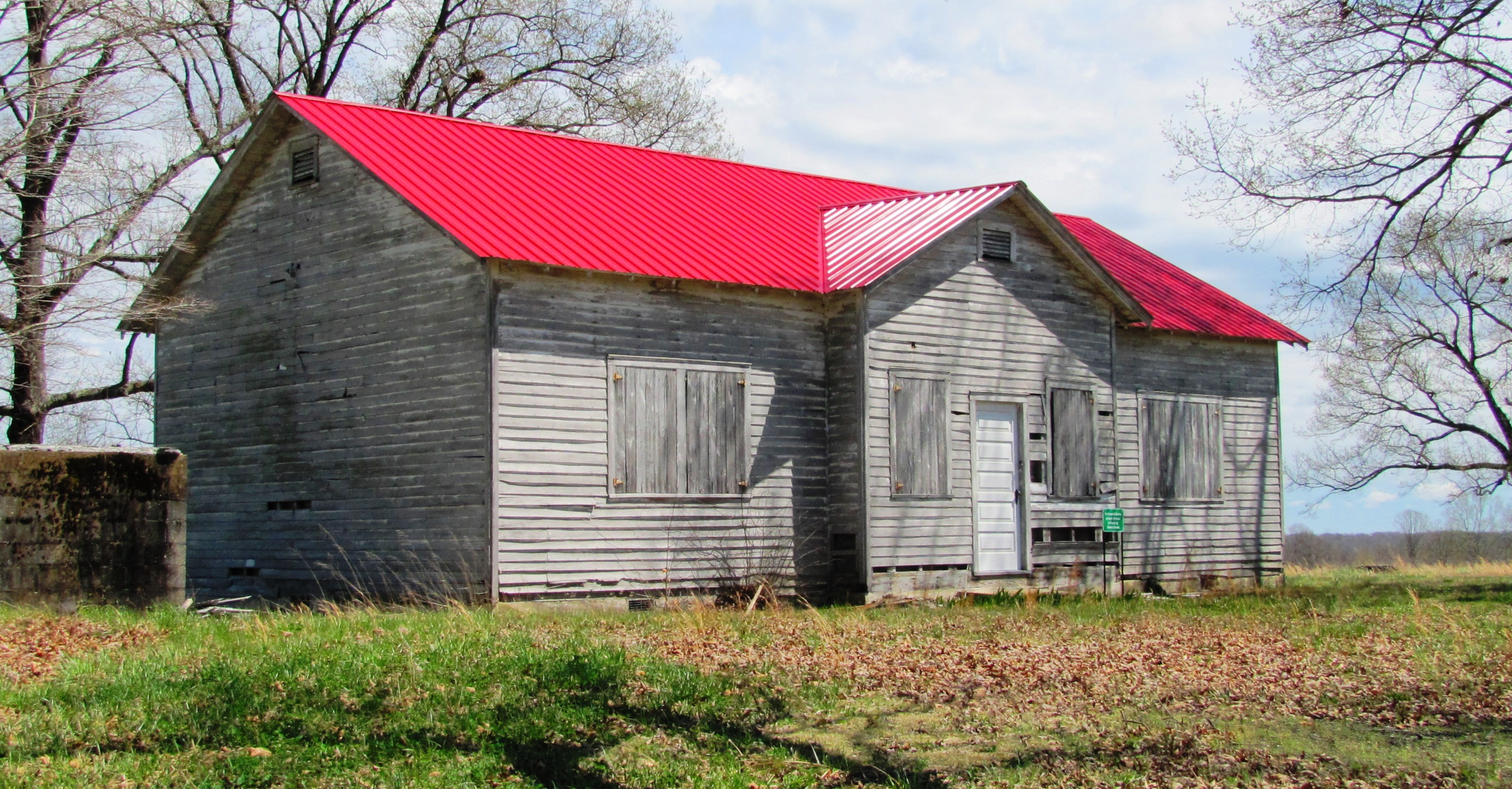 The NRHP-listed Belview School, located in the Underwood community (north of Lafayette) in Macon County, Tennessee, USA.